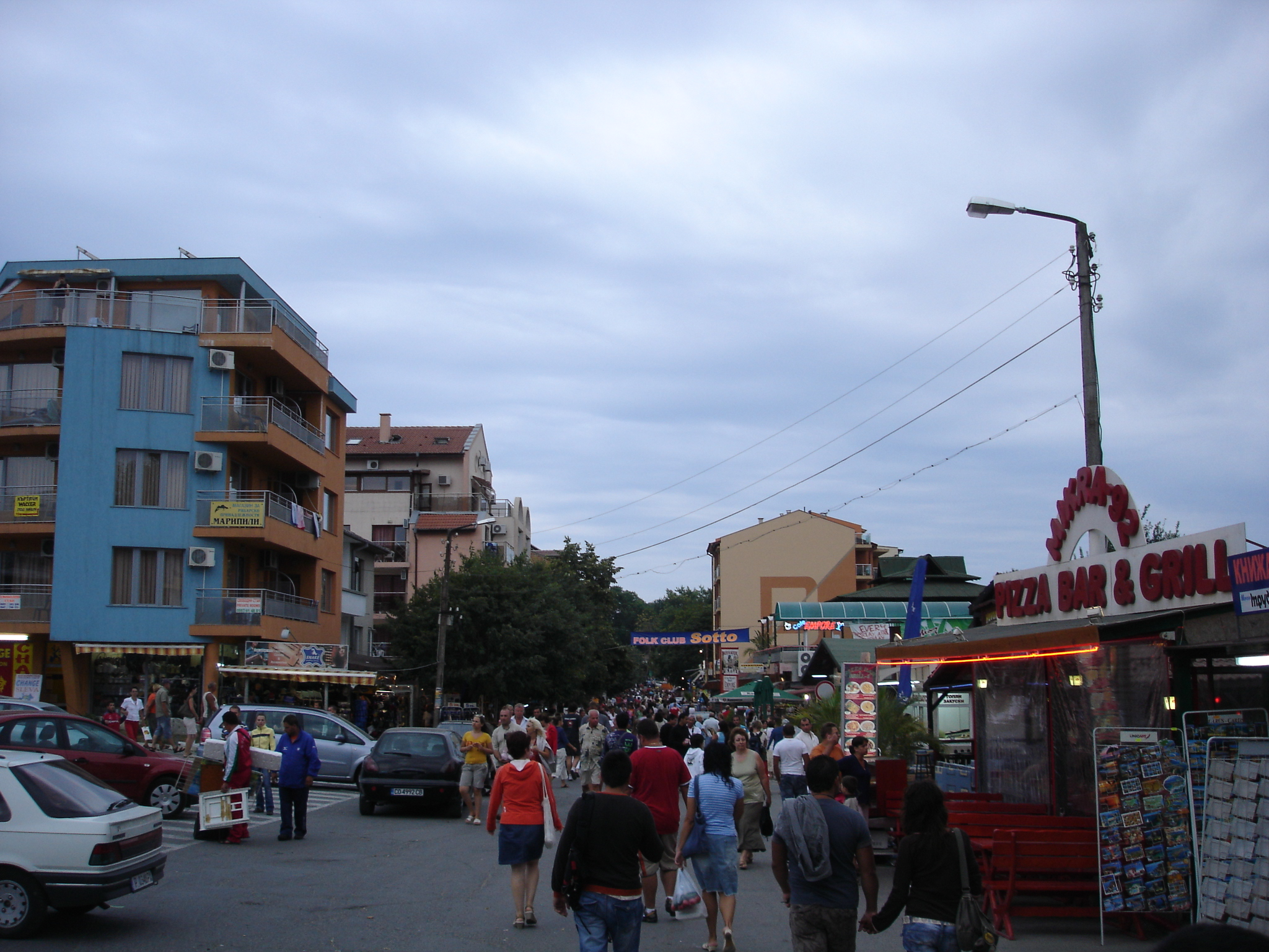 Street in town Primorsko, Bulgaria